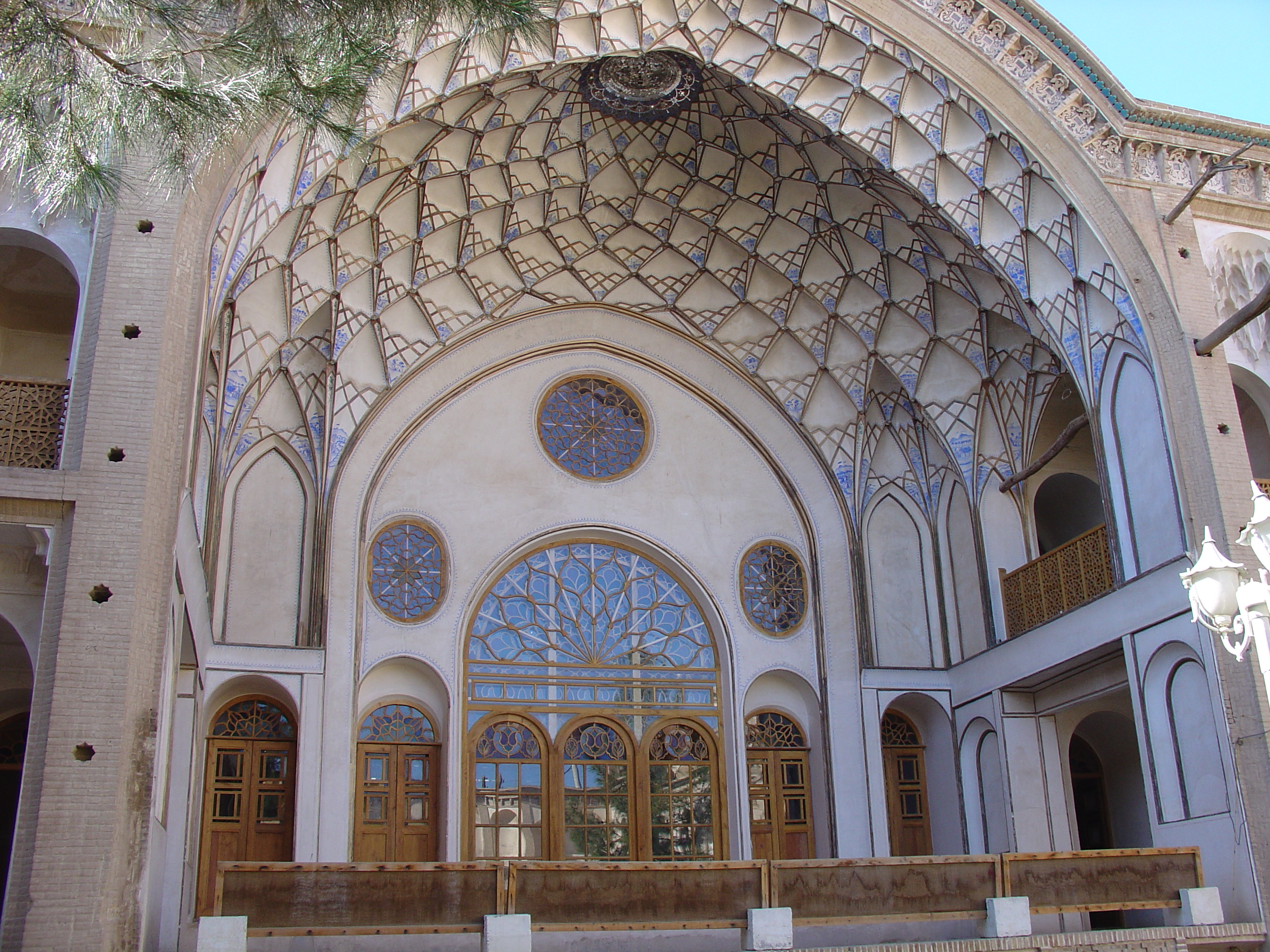 Portal with Muqarna. Facade of Amerian House, Kashan, Iran.